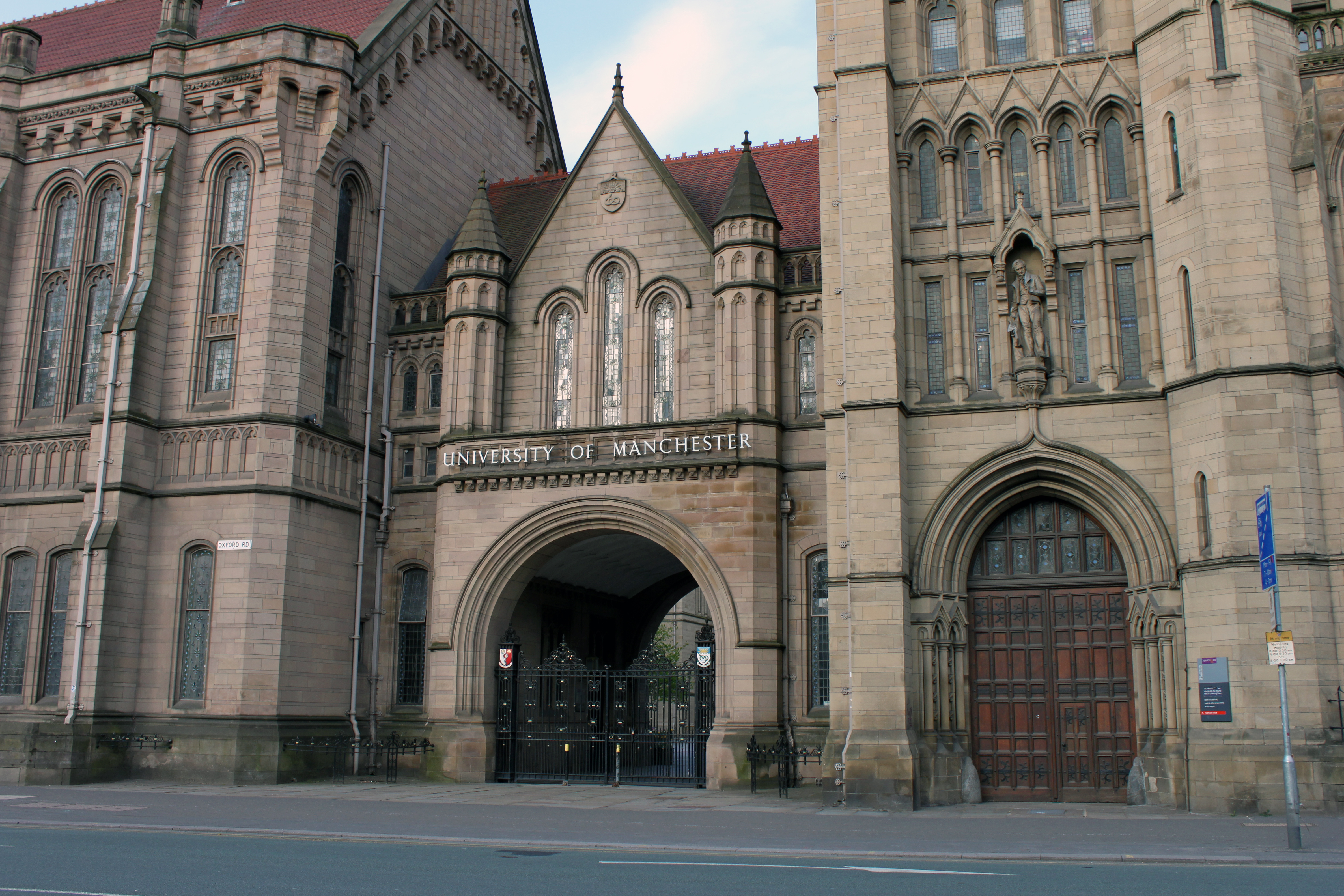 Entrance to Whitworth Hall, University of Manchester.